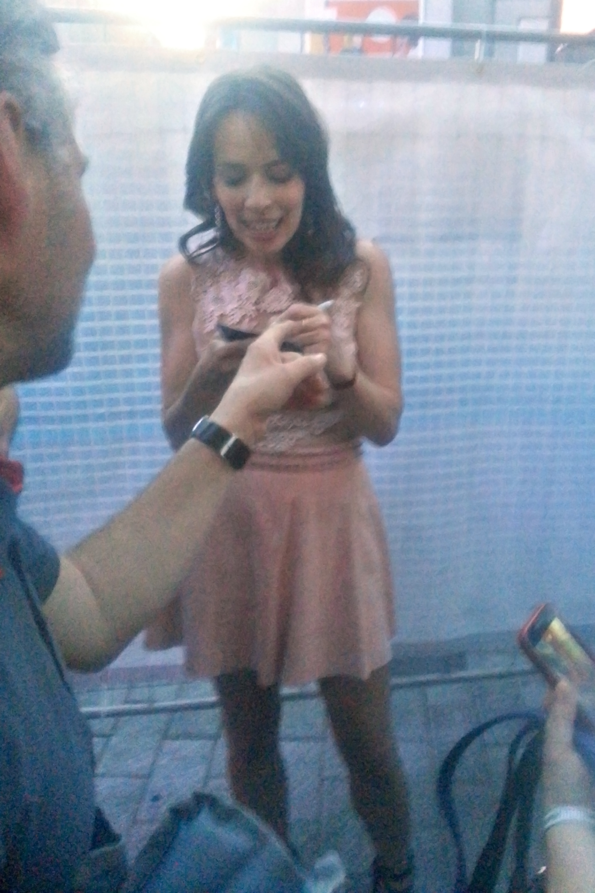 Amélie Veilleux photographed in Montreal, Quebec, Canada at the Francofolies de Montréal 2016.